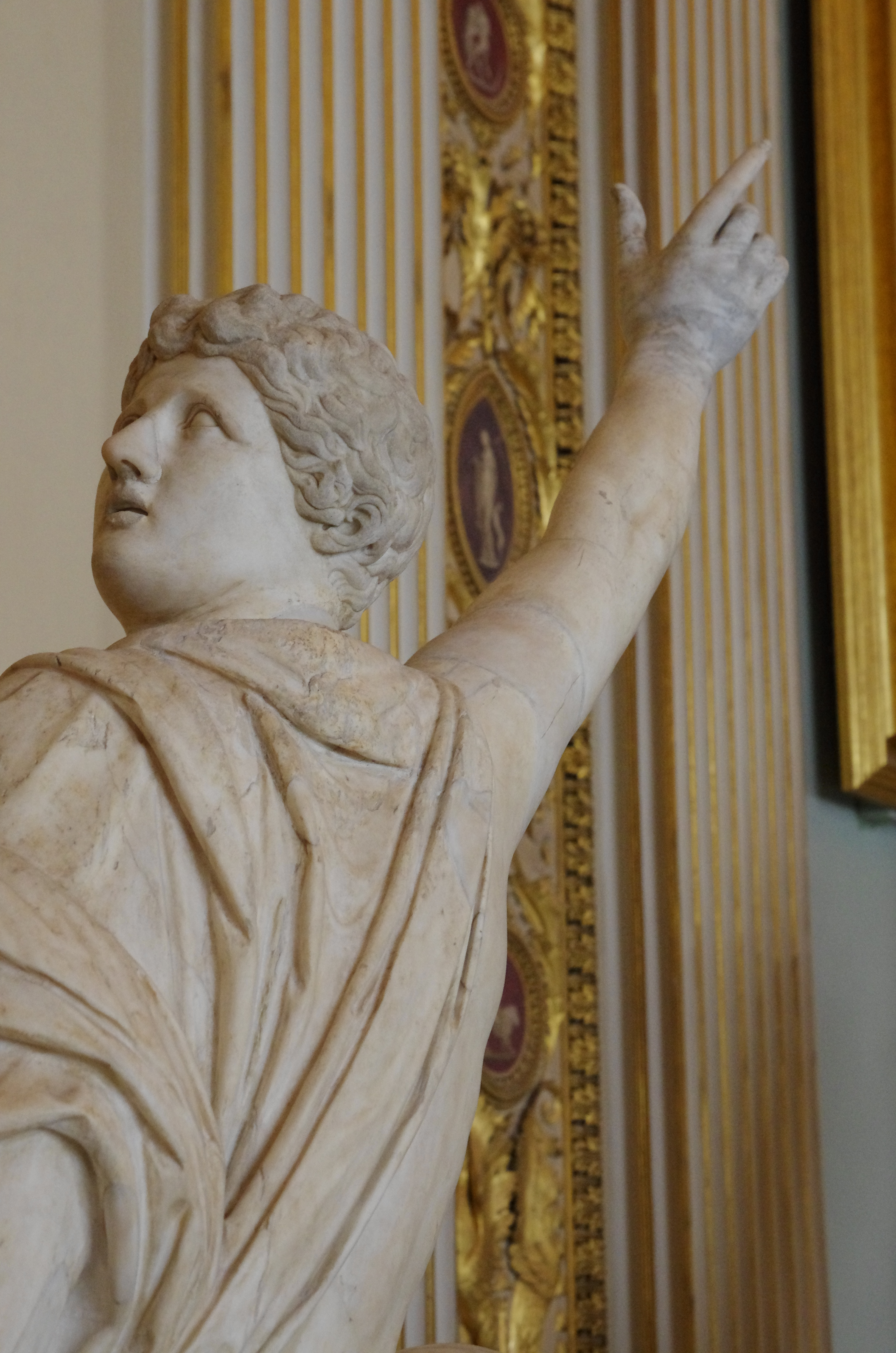 03 2015 Niobide that rises on a rock (sculpture), I - II century Roman work-Uffizi Gallery (Florence) Photo Paolo Villa FOTO9242